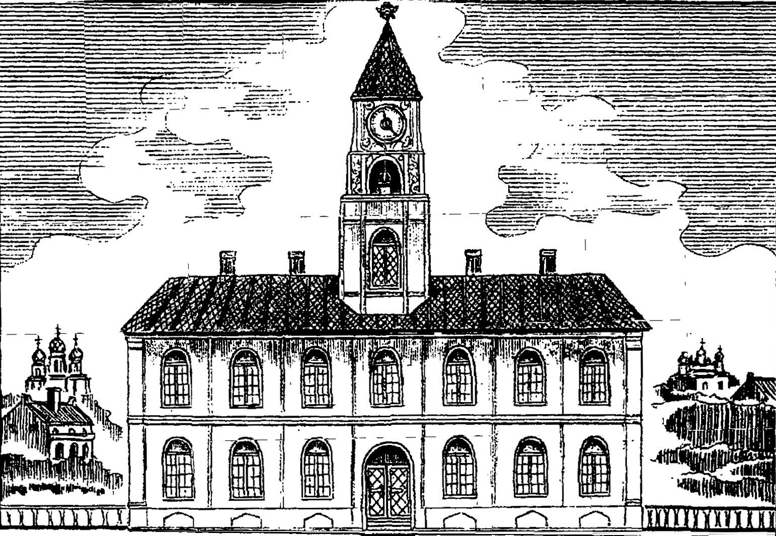 City Hall (Ratusha) in Smolensk